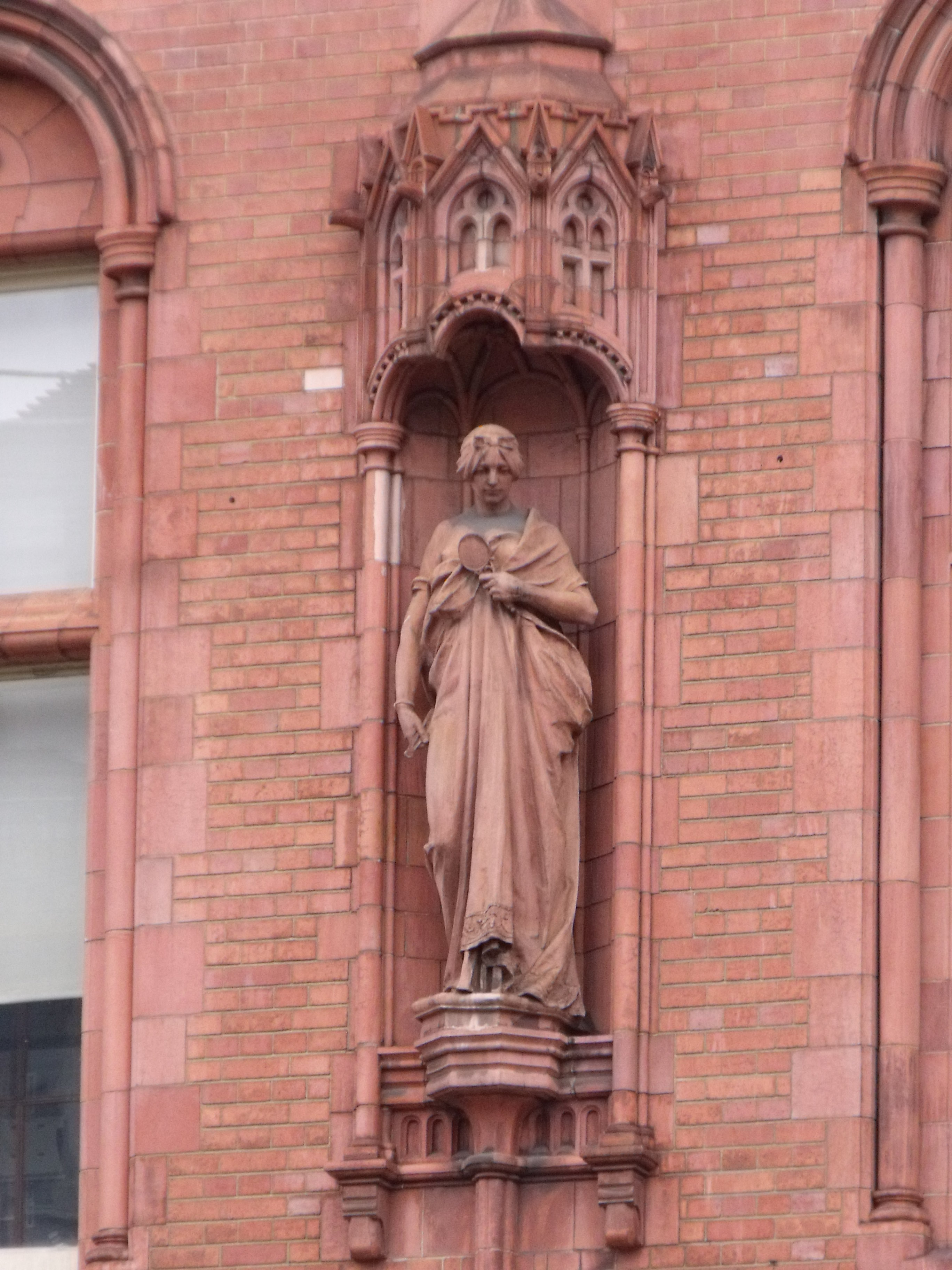 Buildings and monuments down High Holborn, at the beginning of the City of London. This is the Prudential Assurance Building at 138 - 142 Holborn. It was built for Prudential PLC, when they moved to Holborn Bars in 1879. The building was designed by Alfred Waterhouse, and is built of terracotta manufactured by Gibbs and Canning Limited. It is a Grade II* listed building. The north side of the road is actually in Camden Town / Camden and no longer the City of London. It was built in stages from 1885 to 1901. It is in Gothic Revival style. Prudential Assurance Building - Heritage Gateway